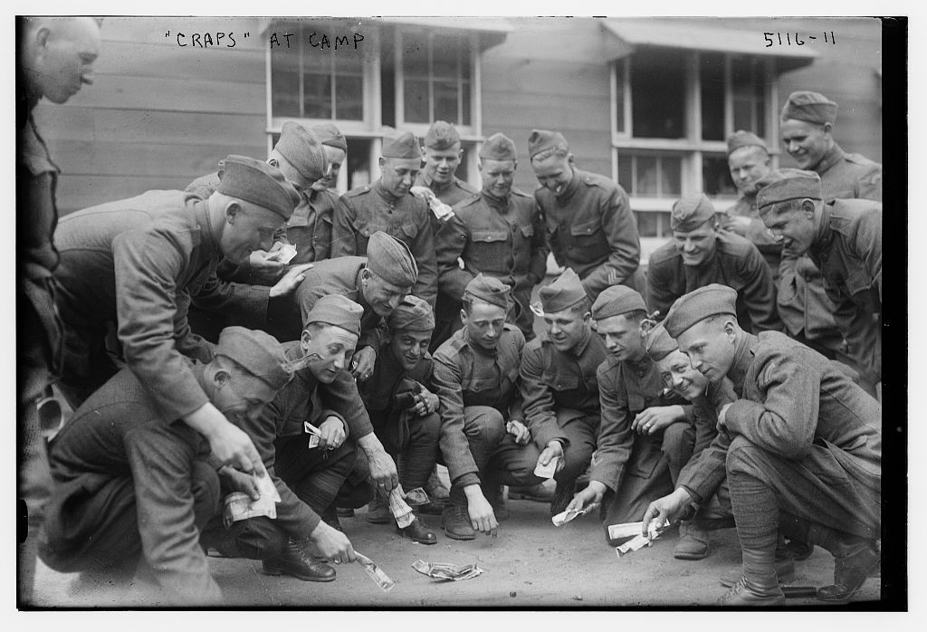 Craps game at military camp in 1918